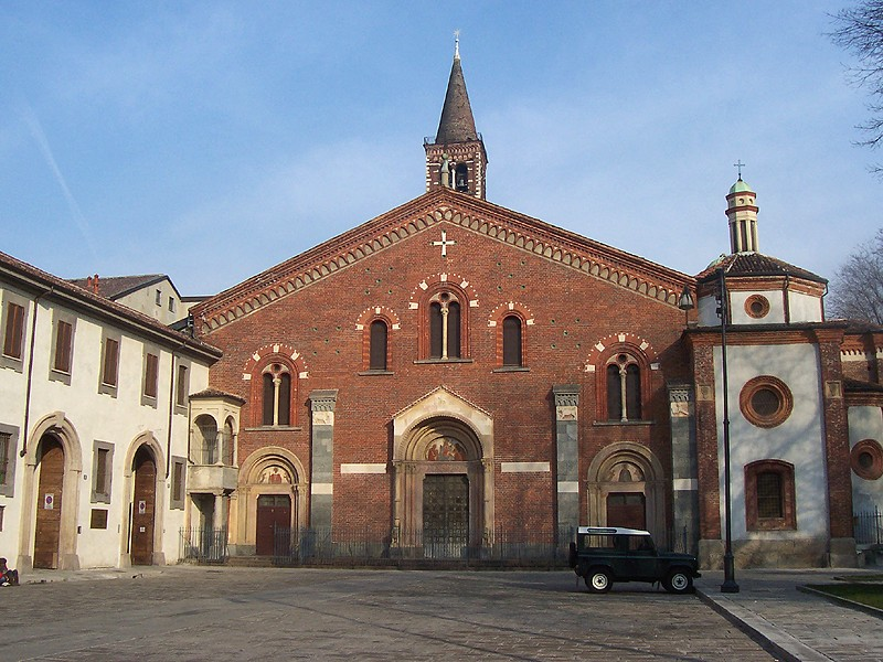 Saint Eustorgius church in Milan (Italy).